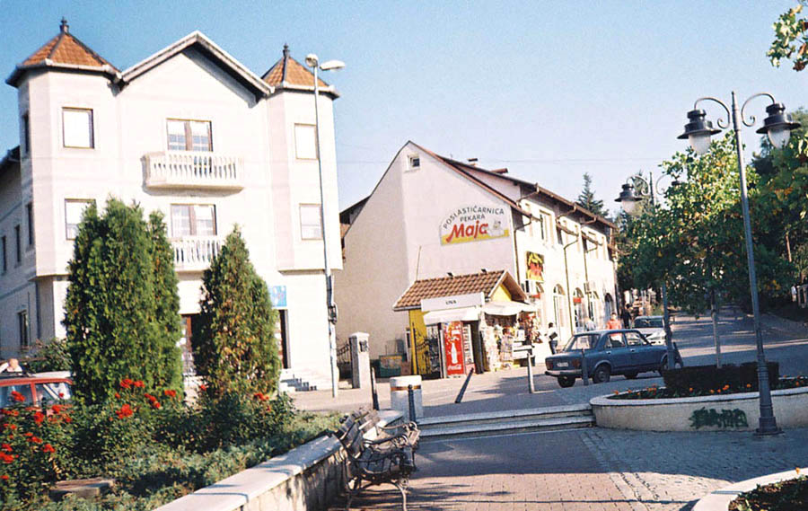 Image of Sremska Kamenica (self made) Category:Novi Sad images